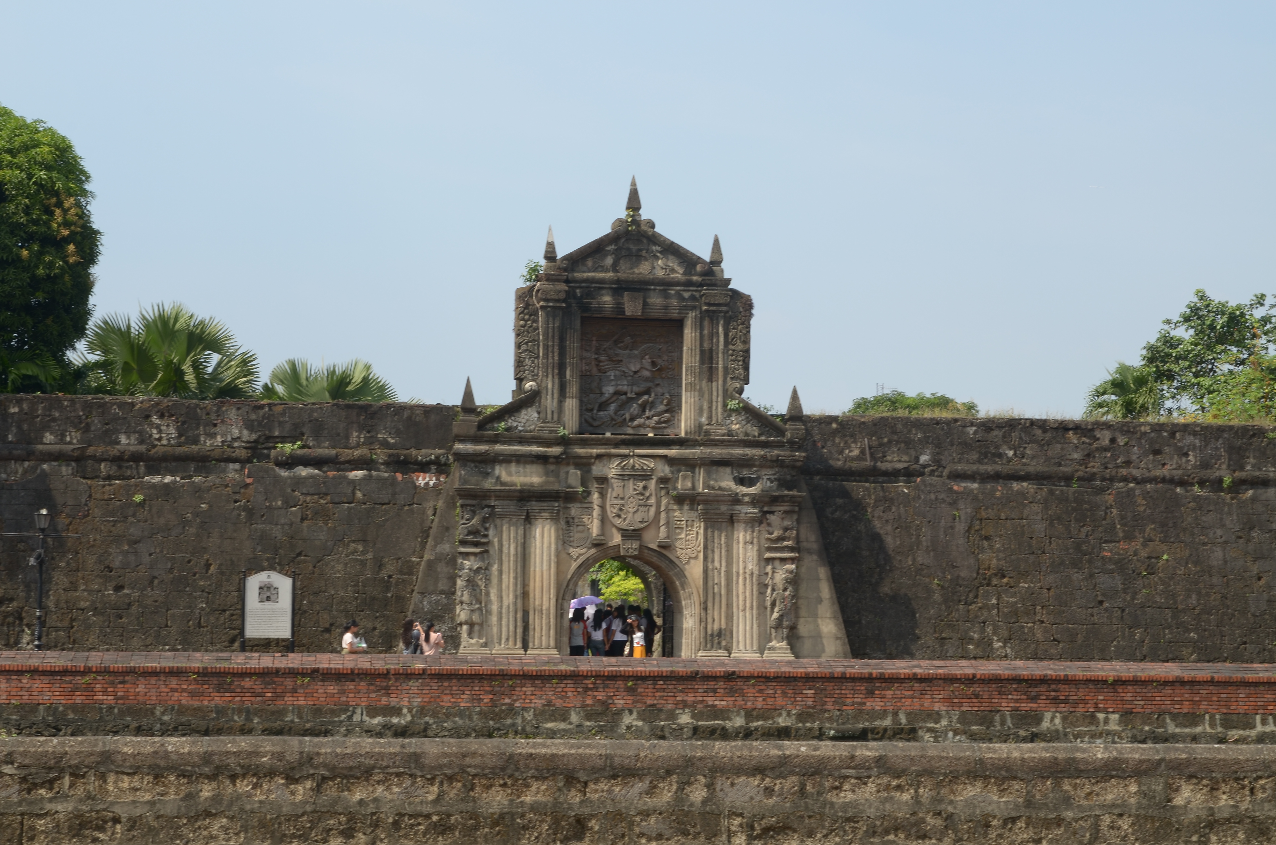 Main Gate of Fort Santiago